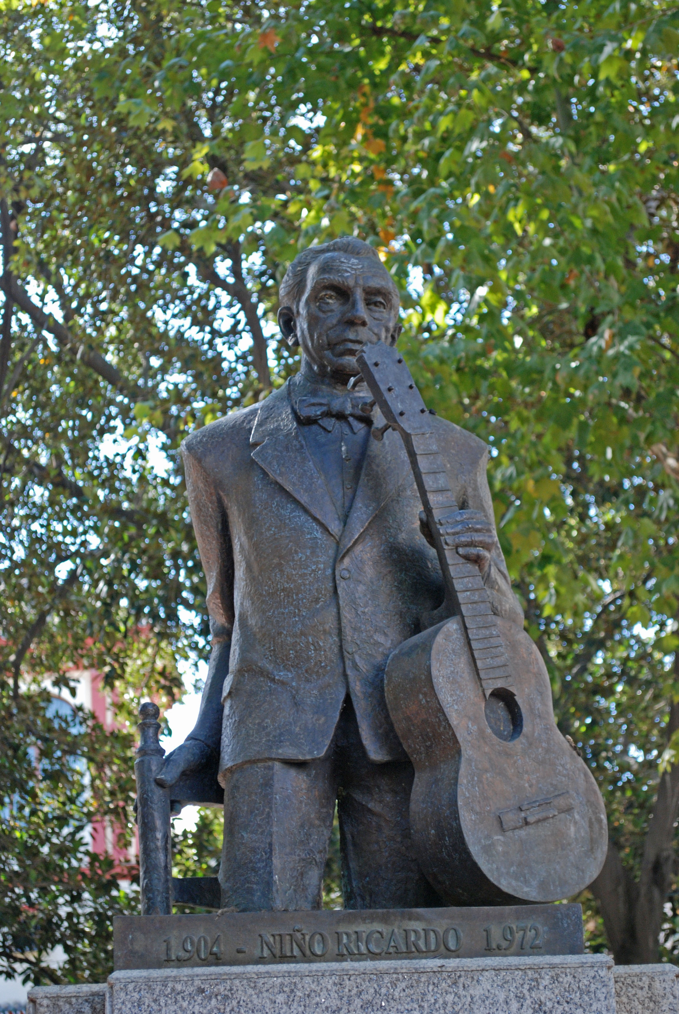 Niño Ricardo, flamenco guitarrist from Spain